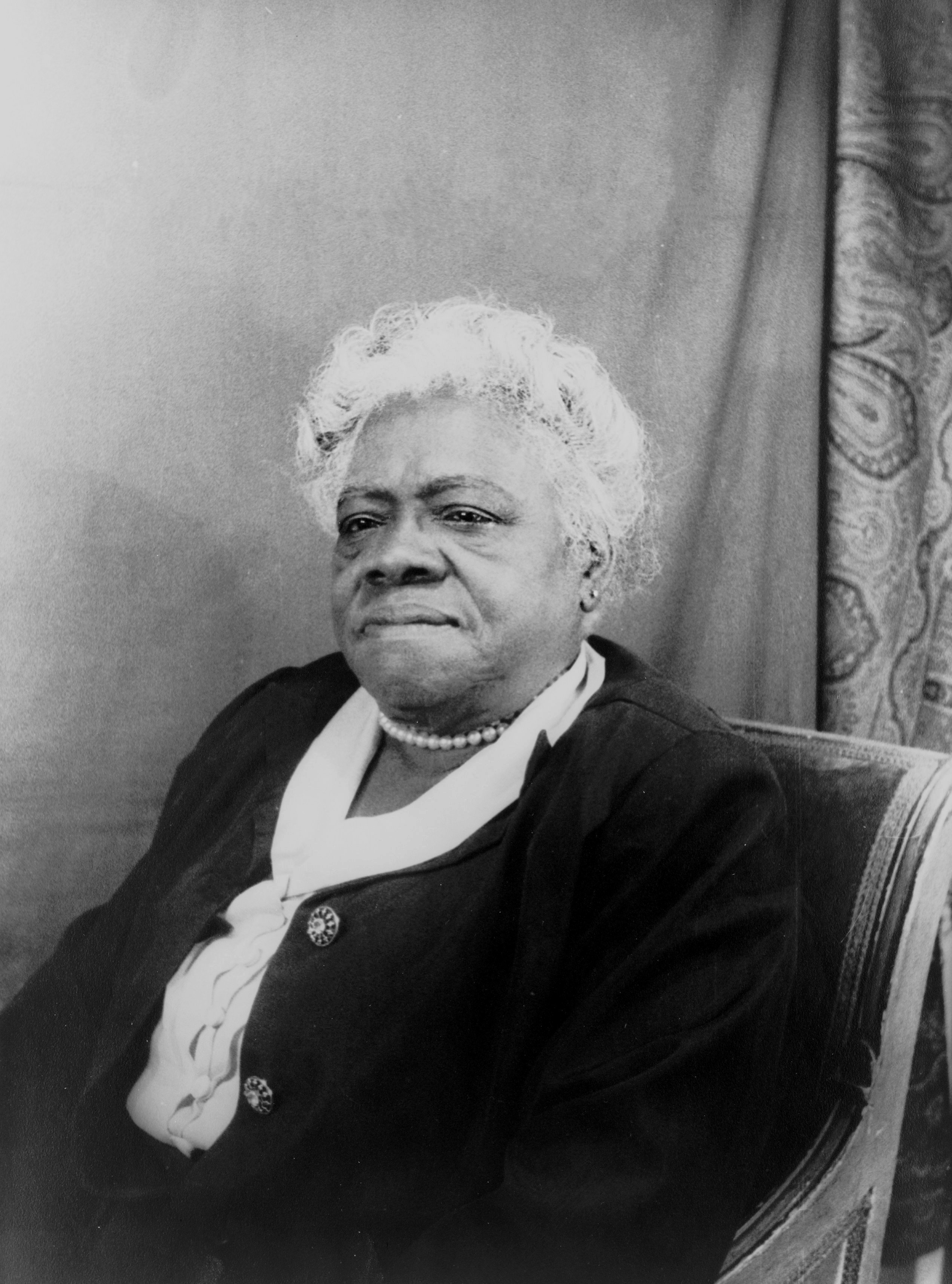 Mary McLeod Bethune